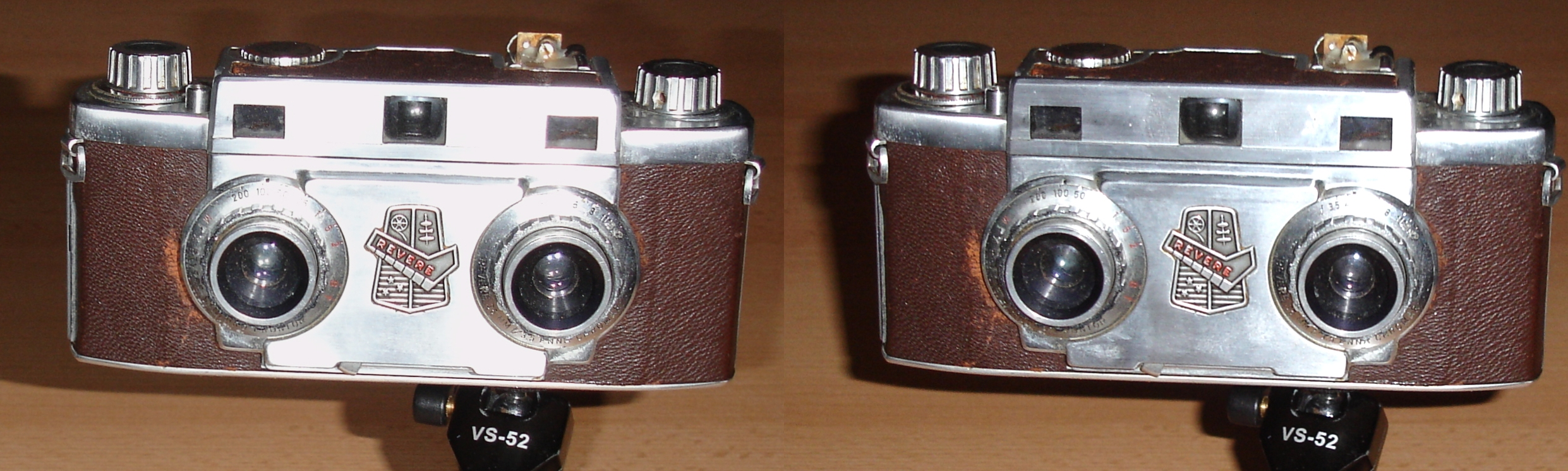 Stereofoto van stereocamera